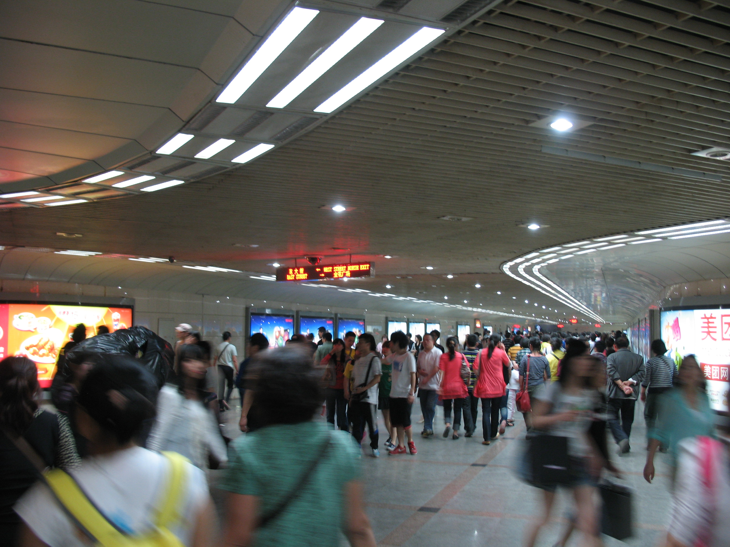 bell tower circle passway, xi'an